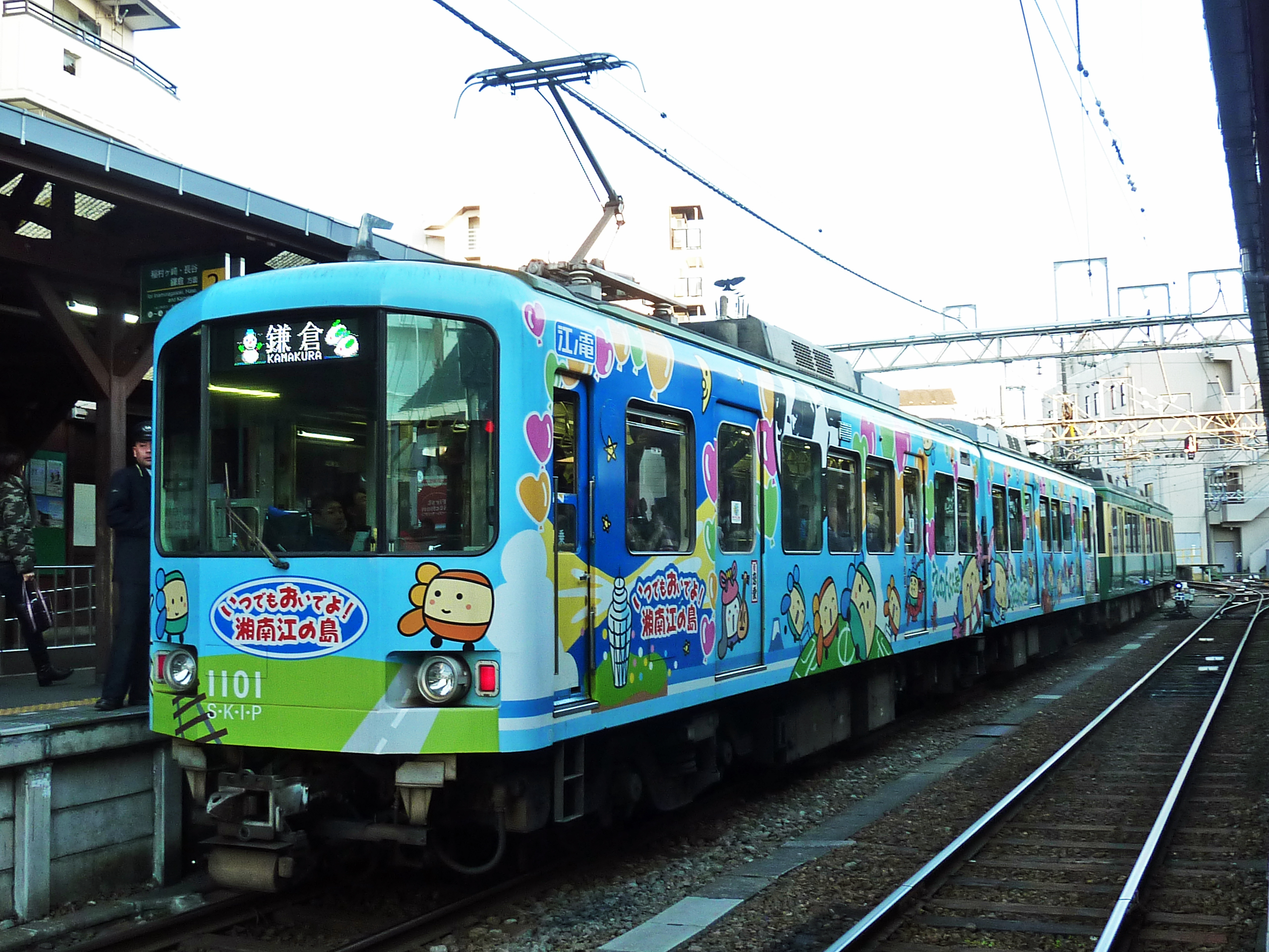 Enoden 1000 series EMU set 1101 at Enoshima Station